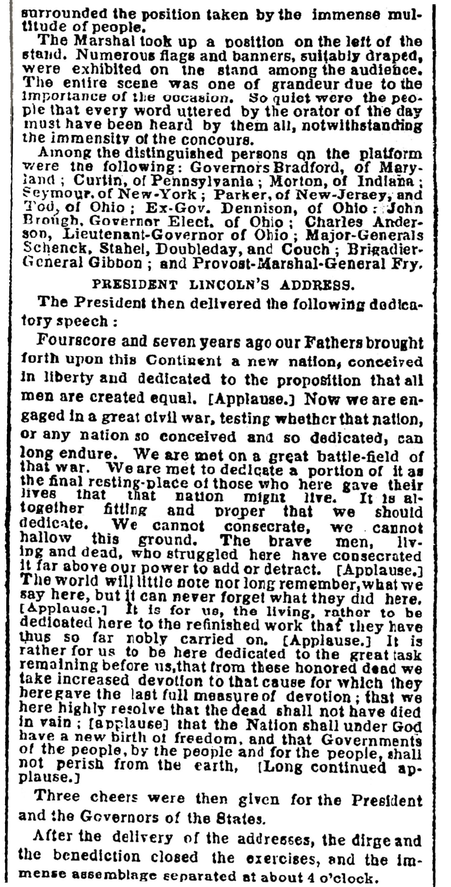 The New York Times from November 20, 1863 reporting on the program and speeches at Gettysburg, Pennsylvania in which President Lincoln delivered the Gettysburg Address.